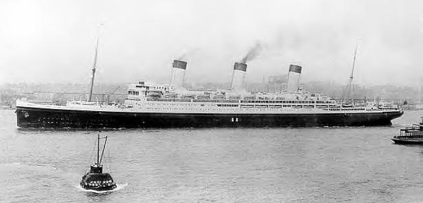 RMS Majestic (Magic stick)